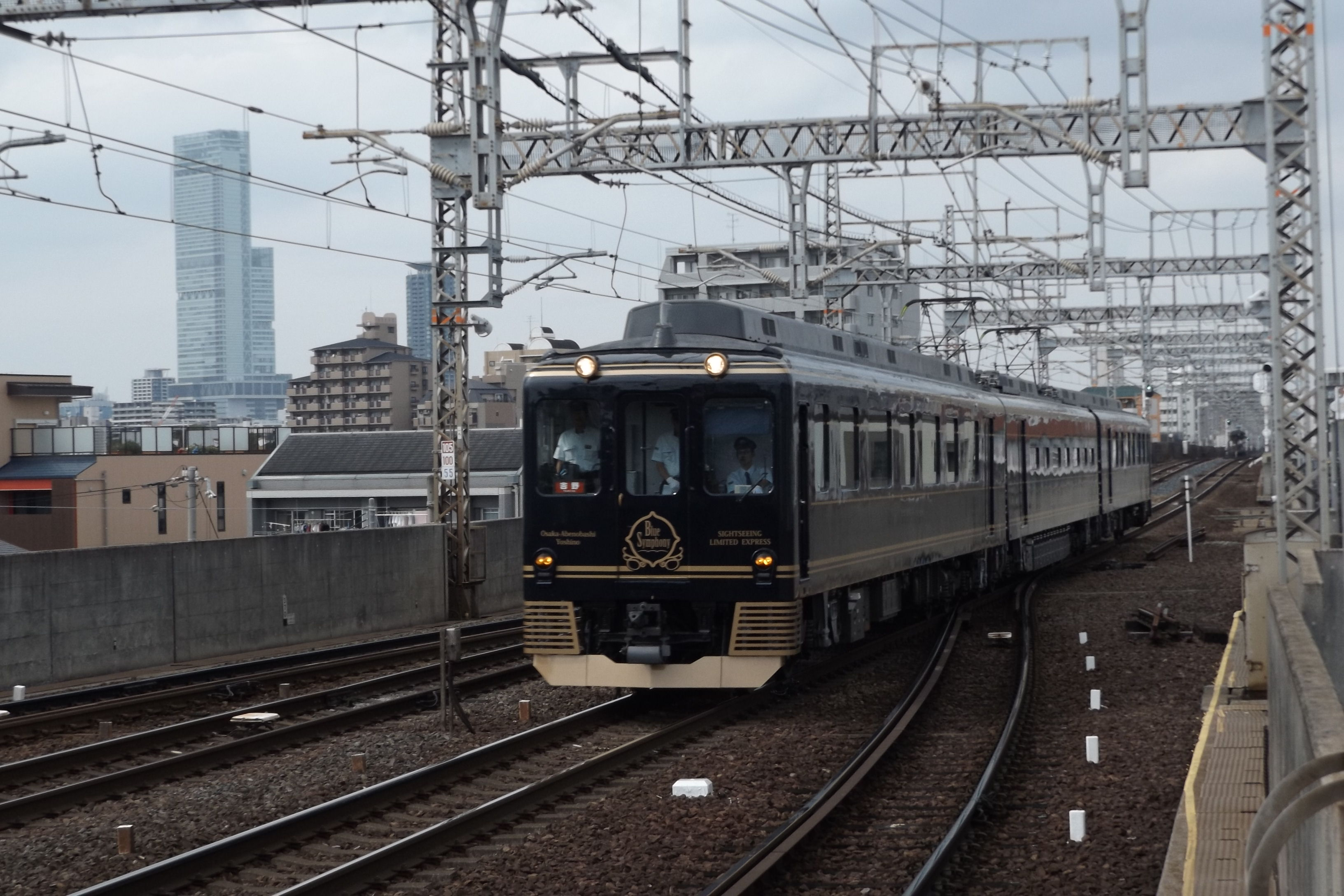 The Kintetsu 16200 series Blue Symphony EMU set approaching Imagawa Station on the Kintetsu Minami-Osaka Line